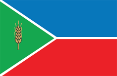 Flag Slavutsky District